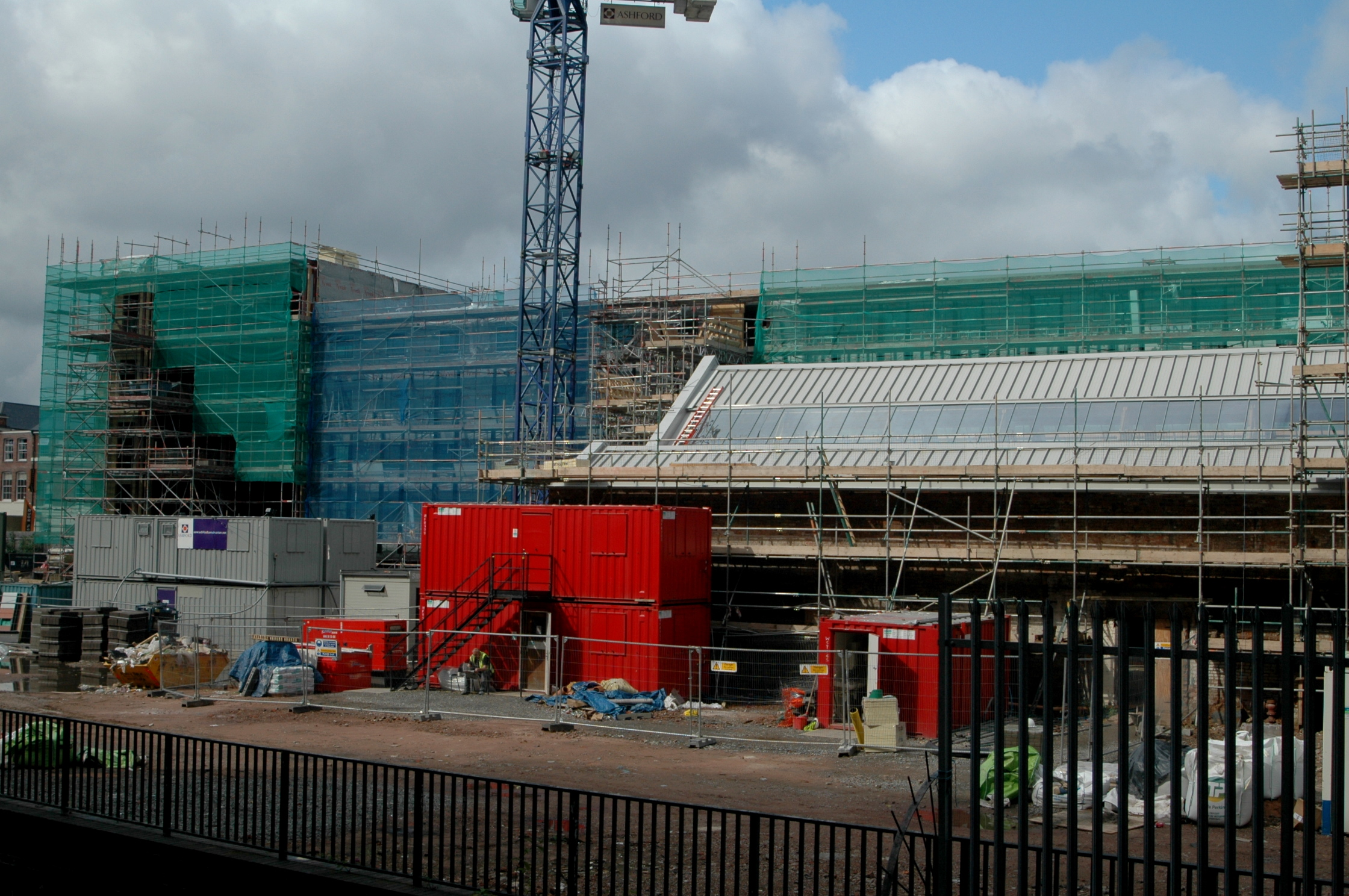 This is construction work taking place on the former Science and Industry Museum site in Birmingham. The scheme is called Newhall Square and involves the construction of a Travelodge hotel and refurbishment of listed buildings on site.